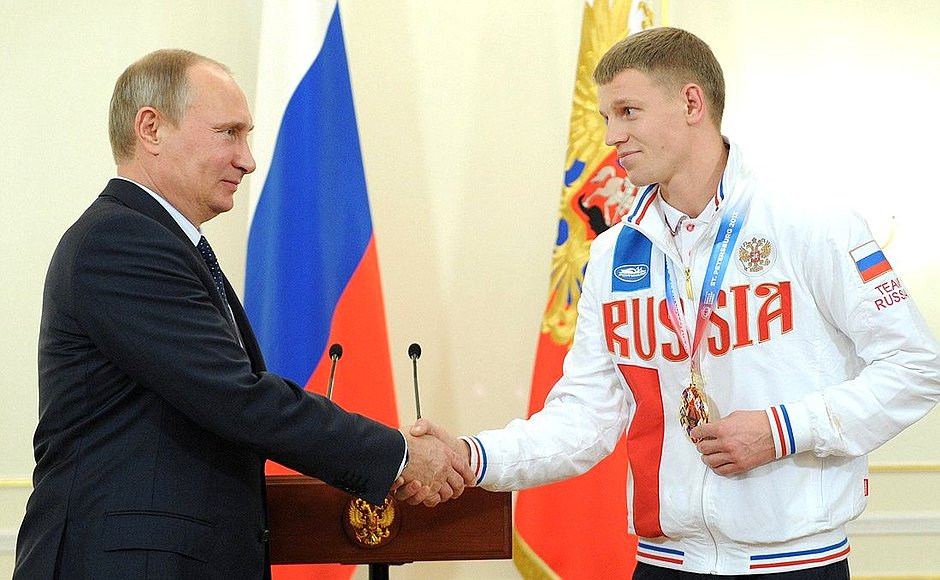 With gold medallist at the 2nd World Combat Games, and a three-time world champion in jiu-jitsu, Pavel Korzhavykh.